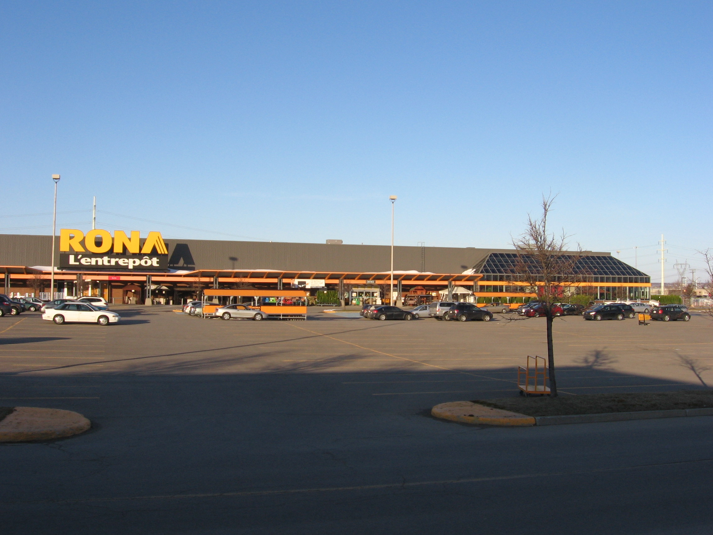 Rona